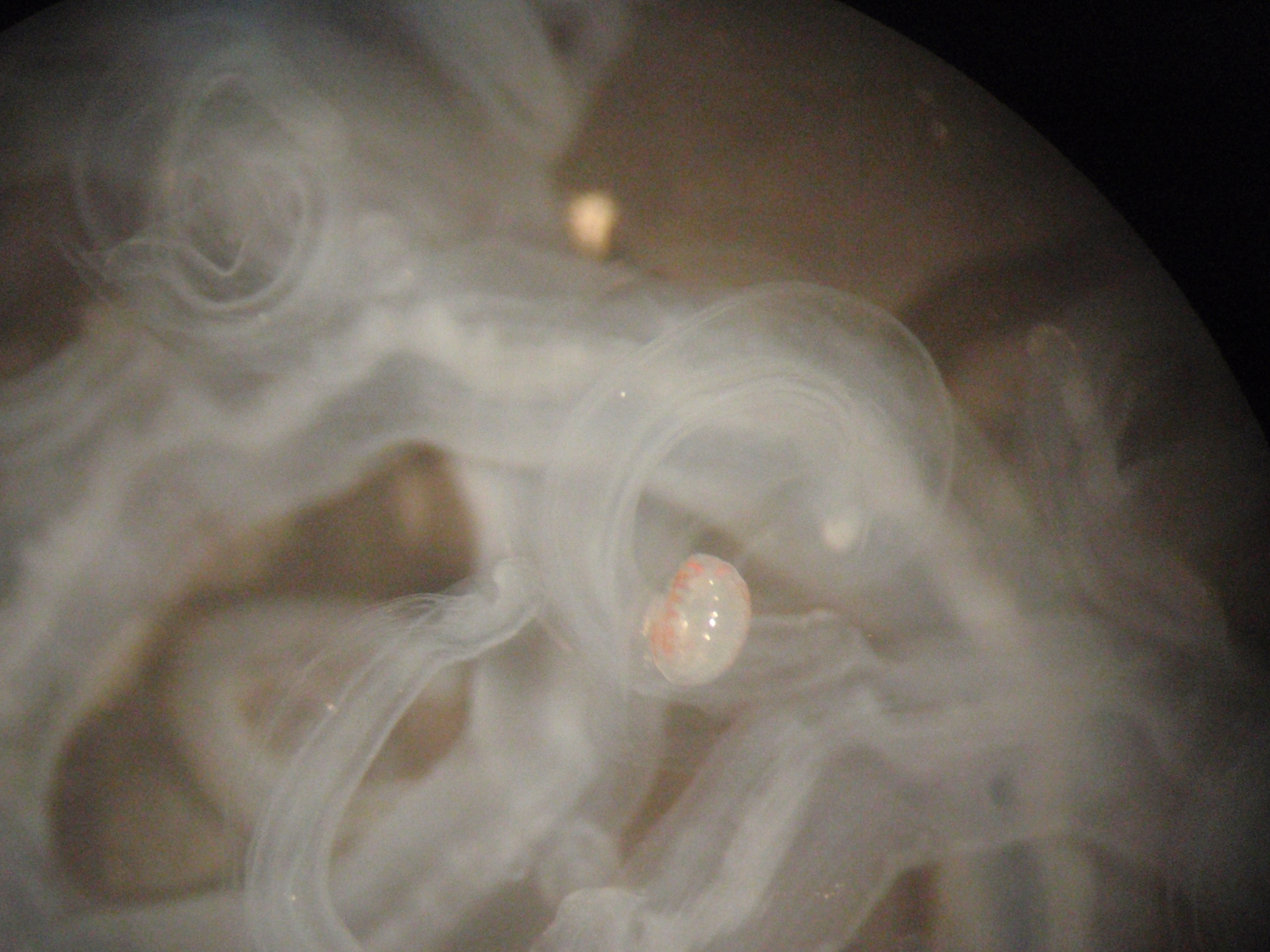 Bathyphysa conifera National Museum of Natural History Object Details Record Last Modified 25 Apr 2019 Specimen Count 1 Collector Dr. Patrick L. Colin Michiel van der Huls Dr. Adriaan Schrier Cristina I. Castillo Expedition Deep Reef Observation Project (DROP), 2011 Ocean/Sea/Gulf North Atlantic Ocean, Caribbean Sea Vessel CURASUB DSR/V